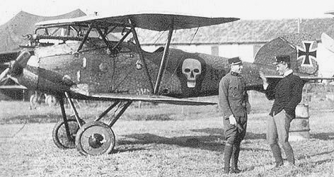 An Oeffag built Albatros DIII flown by Godwin Brumowski; The left man in front is Godwin von Brumowski - Austria-Hungarys ace of the aces - with Frank Linke-Crawford, another flying ace. Picture taken at Flik 41J's airfield Torresella at the italian front